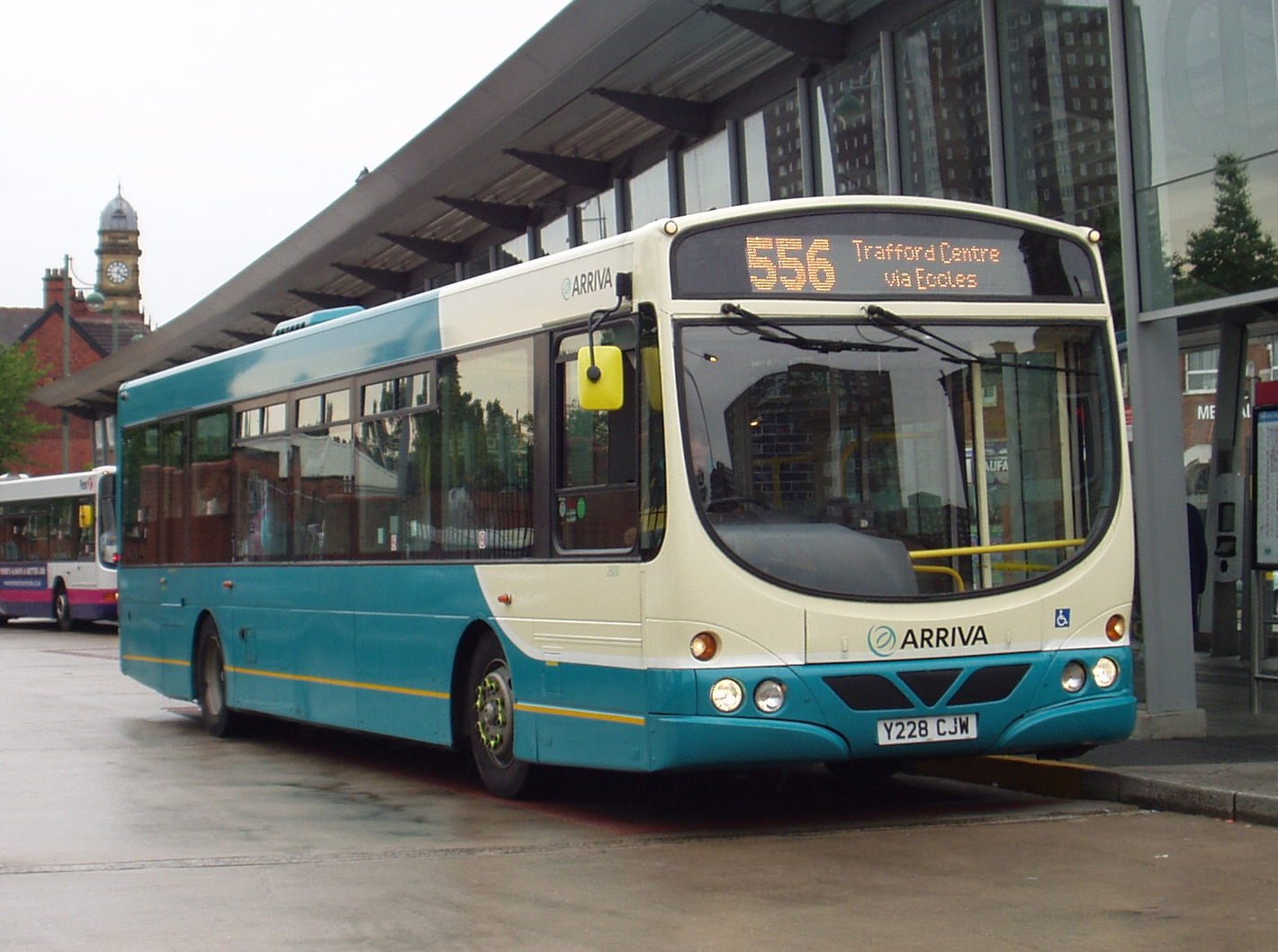 Arriva North West and Wales 2800, a Volvo B7L with Wright Eclipse (Metro) bodywork. The only one of its type in the fleet, it is pictured in Eccles Bus Station en route from Bolton to the Trafford Centre.